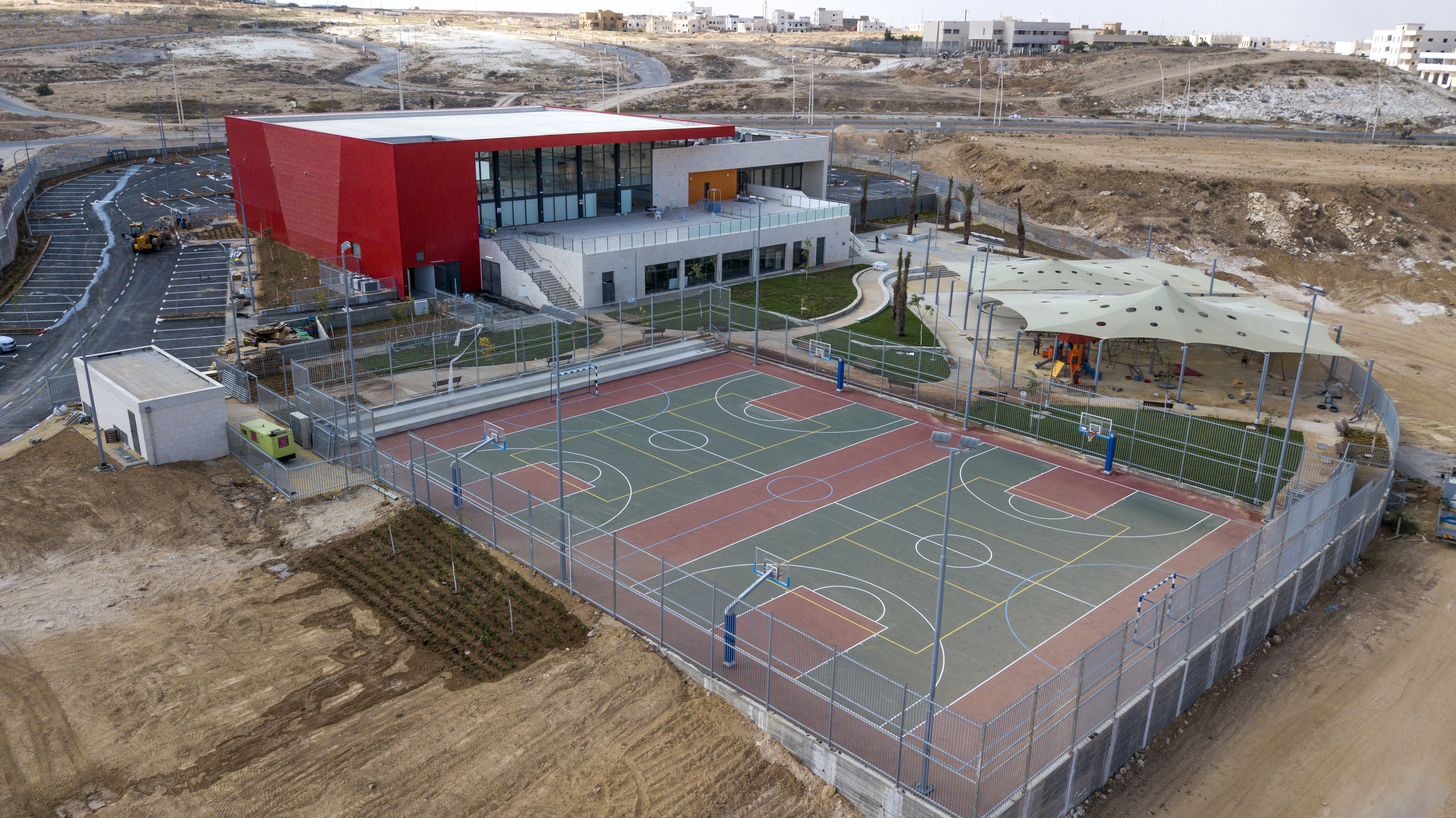 Country Club Rahat